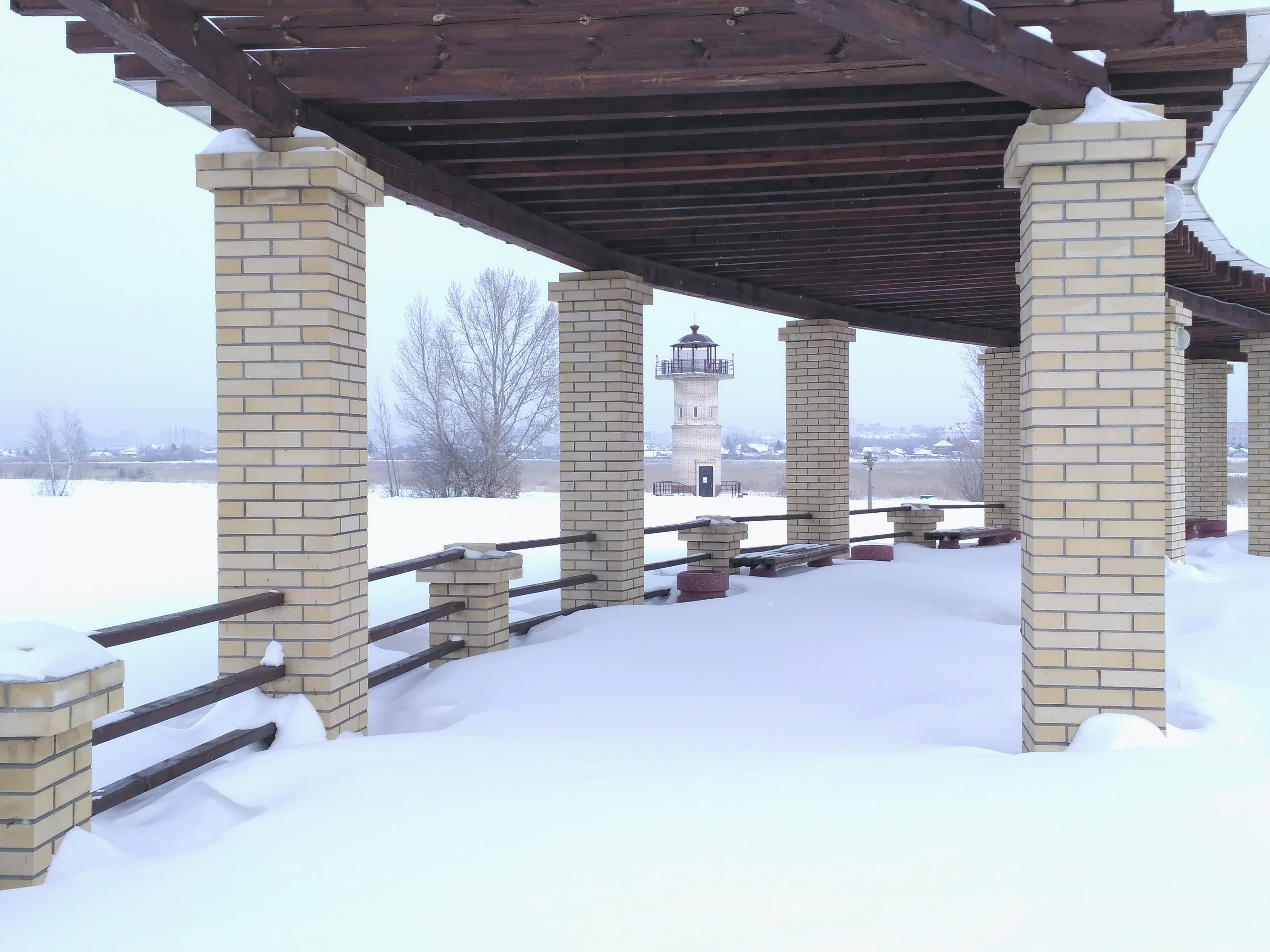 Omsk city